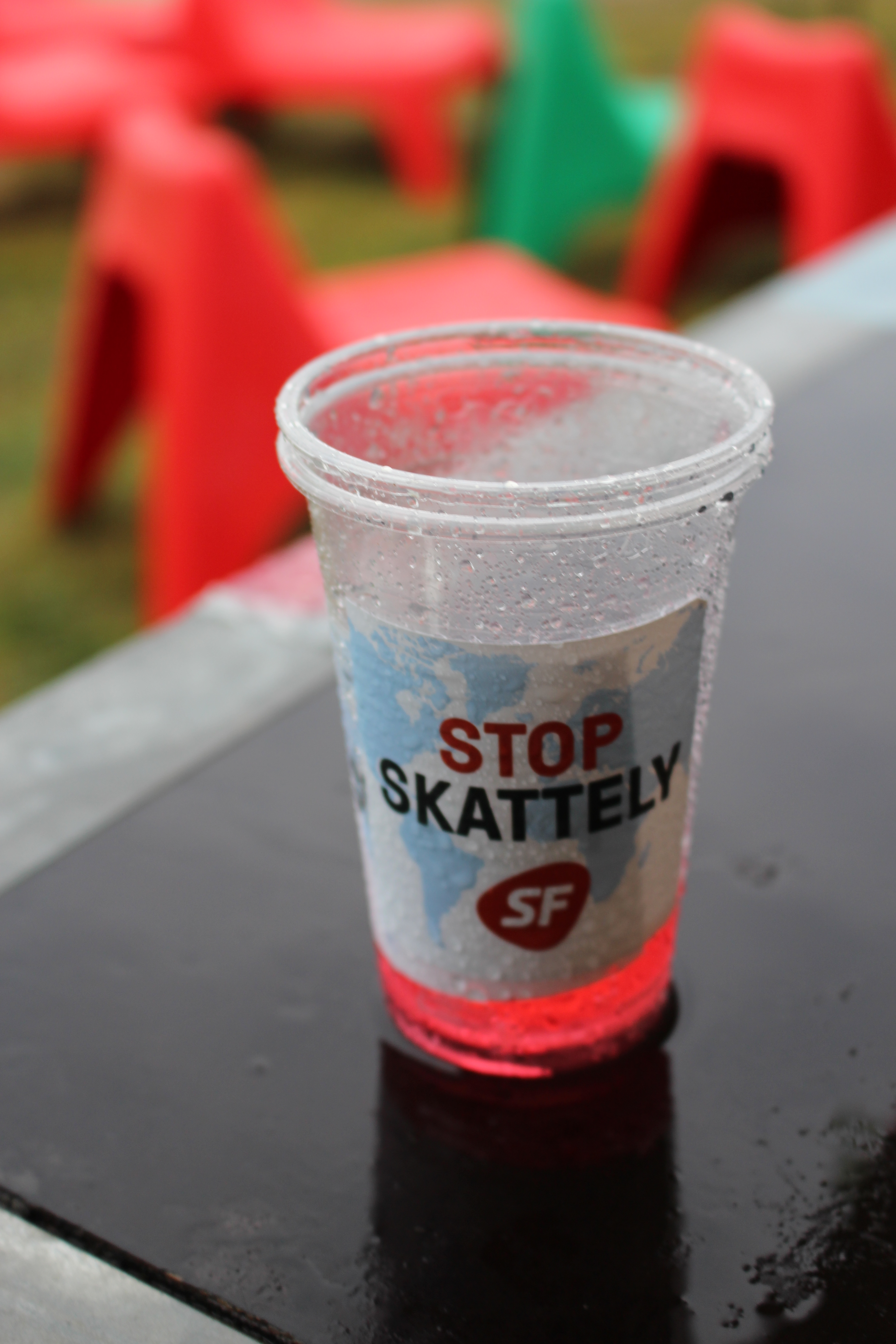 A cup from the Danish party SF at Folkemødet 2016 with the writing "Stop taxheaven"